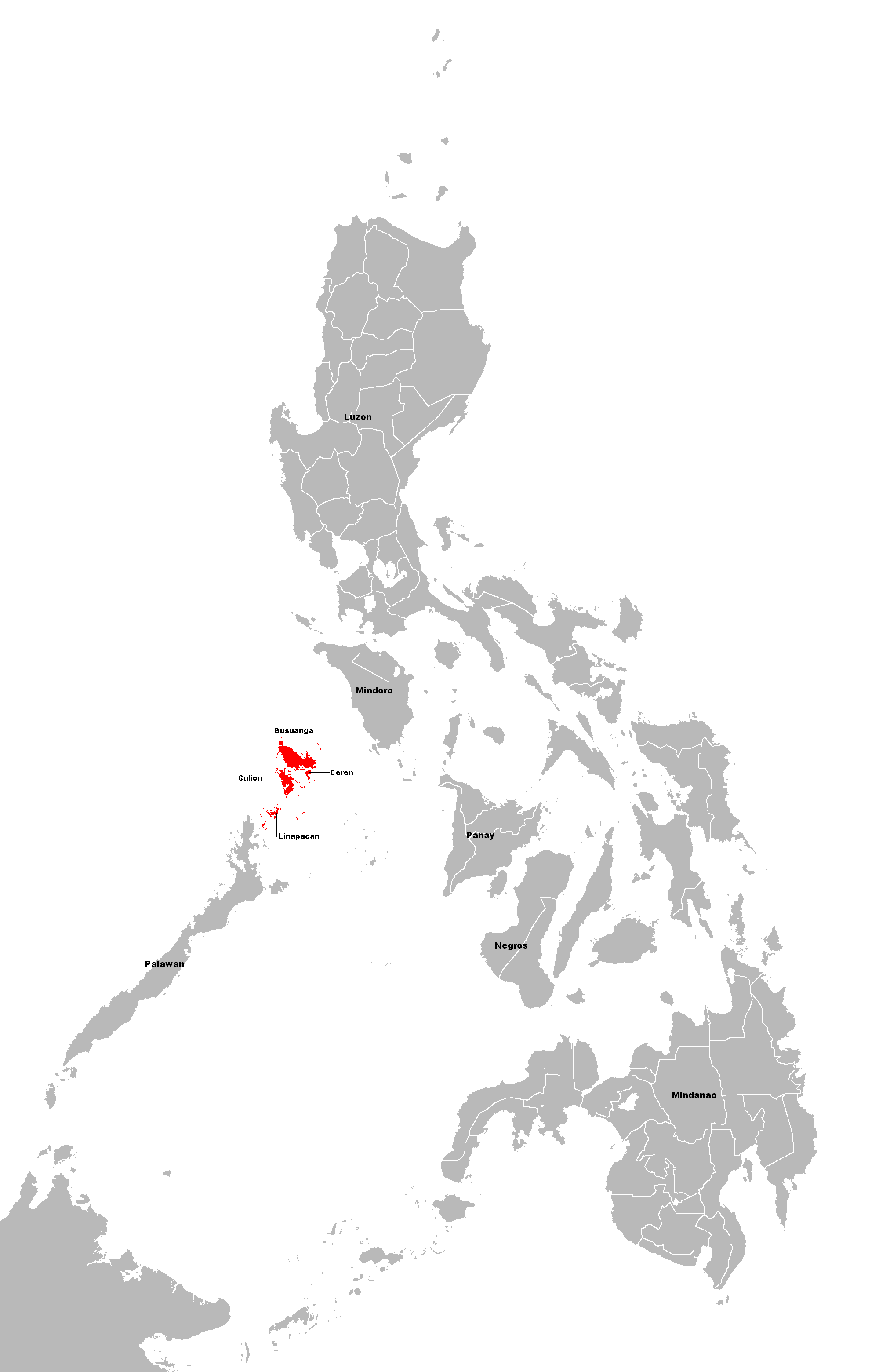 Map of the Philippines showing the location of the Calamian Islands with islands name